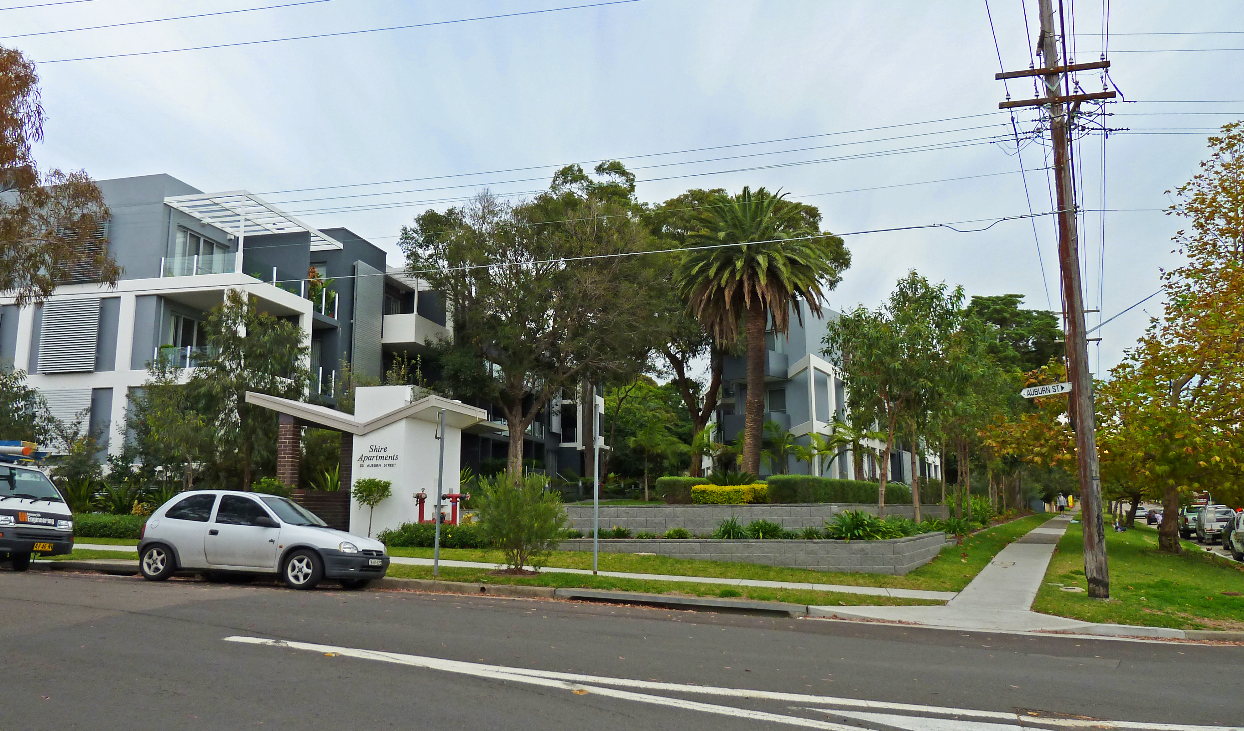 Shire Apartments, 55 Auburn Street, Sutherland, New South Wales, Australia.